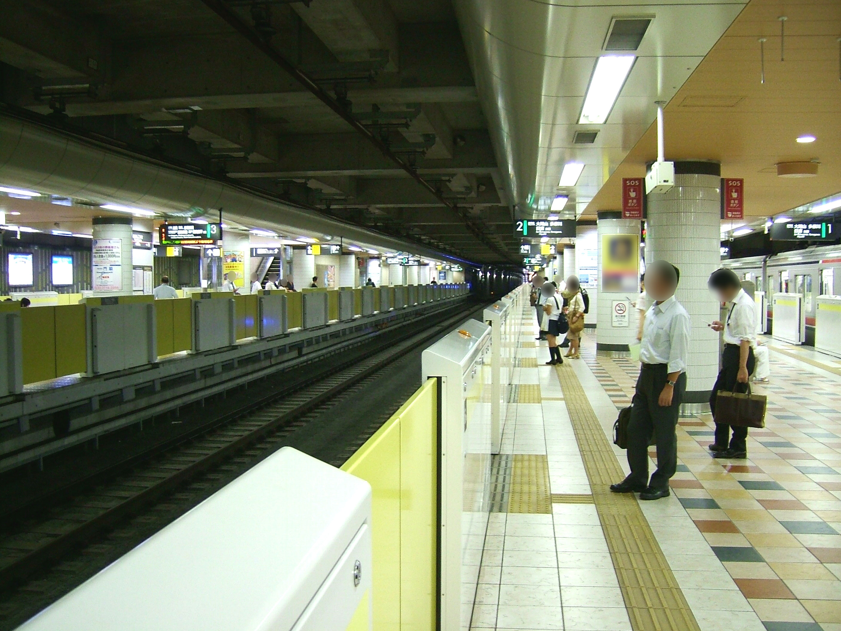 Musashi-Koyama Station platform (Tōkyū Meguro Line)